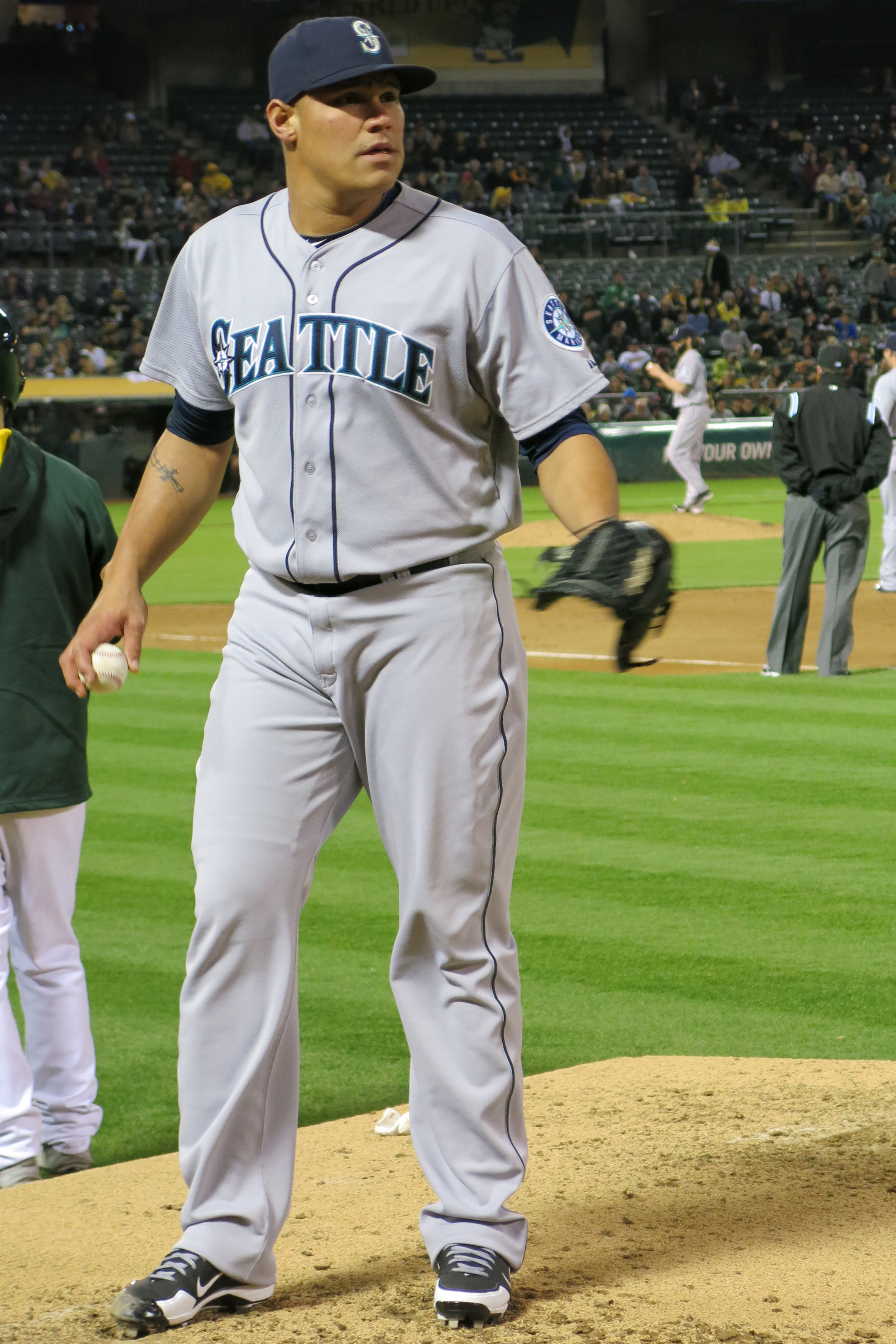 Seattle Mariners relief pitcher Yoervis Medina warms up in the bullpen in a game against the Athletics in Oakland, California.